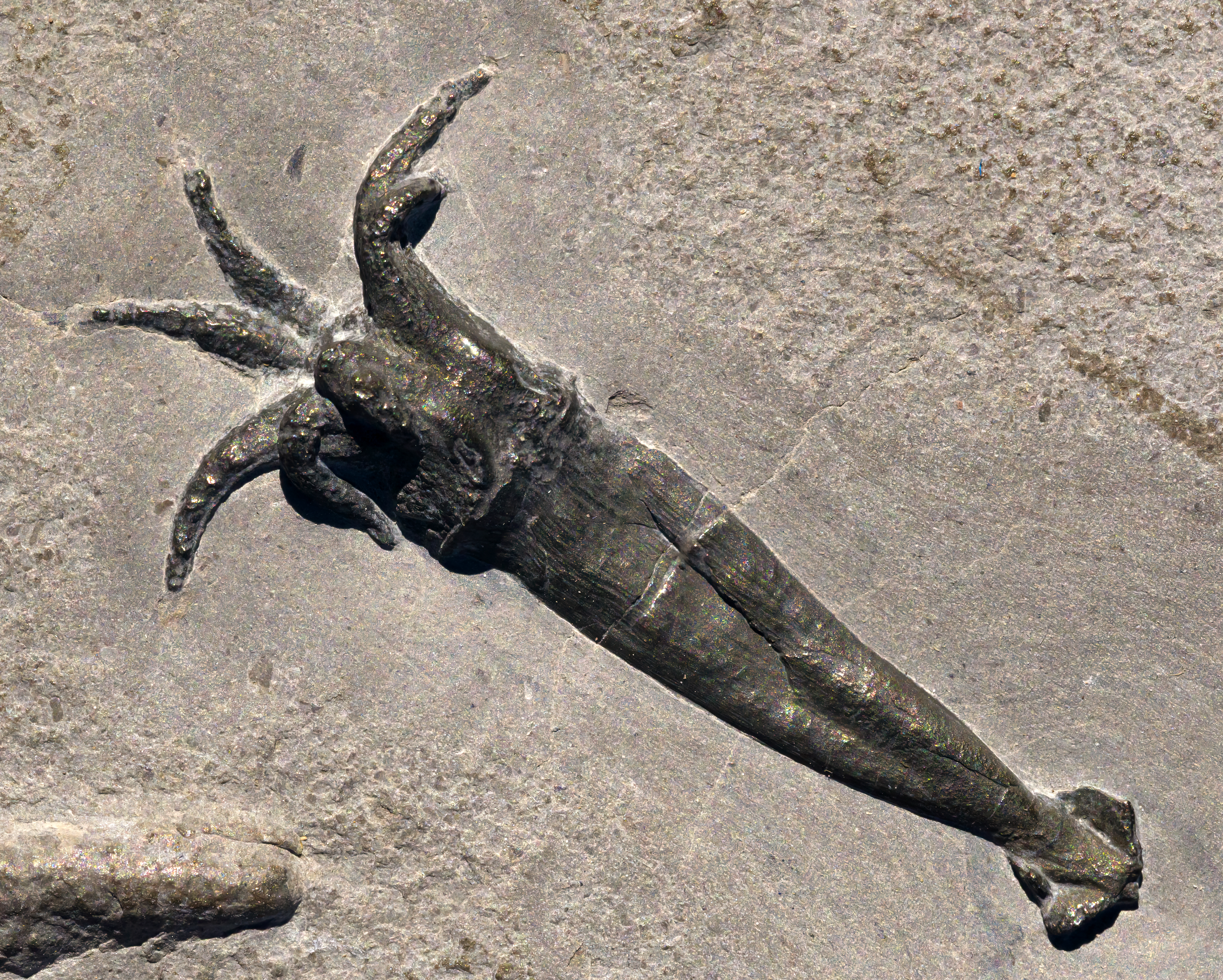 Rhomboteuthis lehmani. Lower Callovian